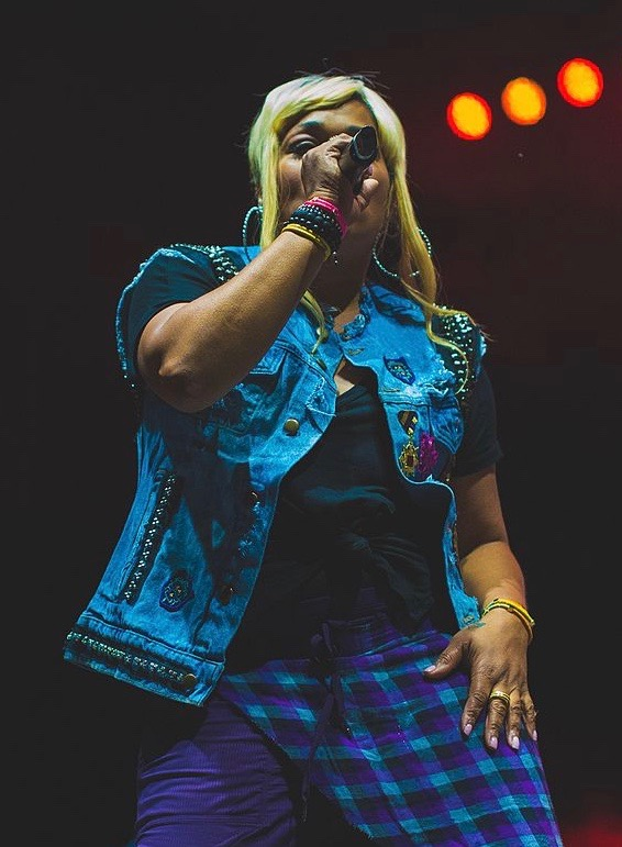 93-5 The Move presents Throwback Bash with TLC, Naughty by Nature and Kardinal Offishall at TD Echo Beach in Toronto on Saturday, September 24th 2016